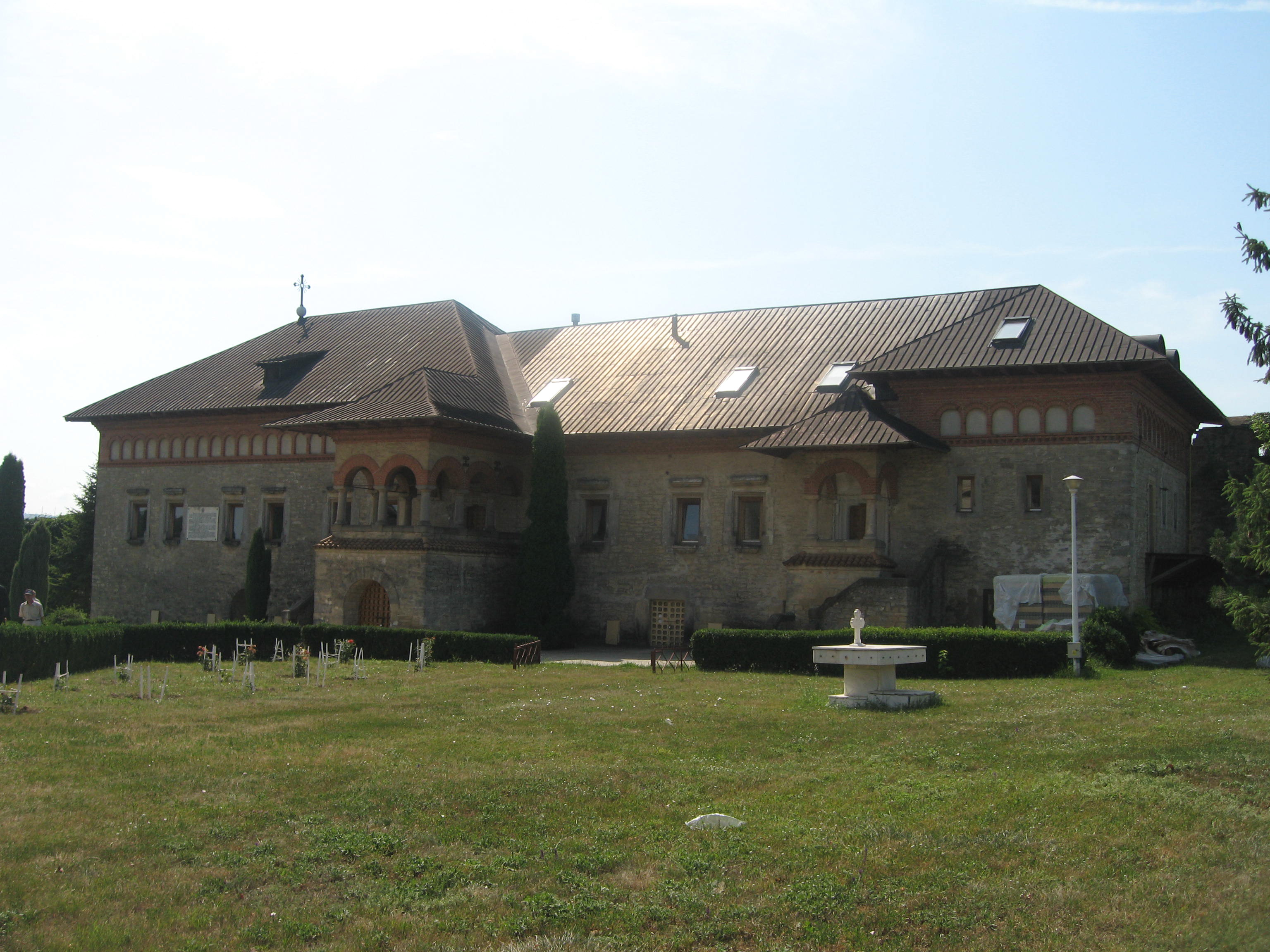 Mănăstirea Cetăţuia